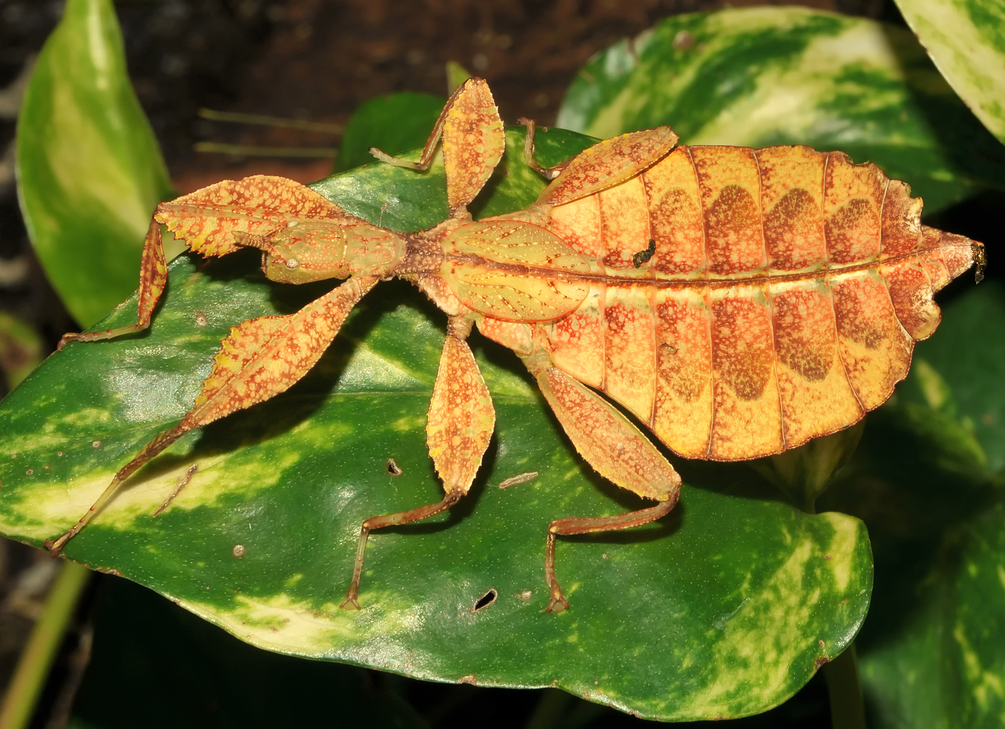 female nymph of Walking leave Phyllium philippinicum from the Aquarium Berlin in Berlin, Germany